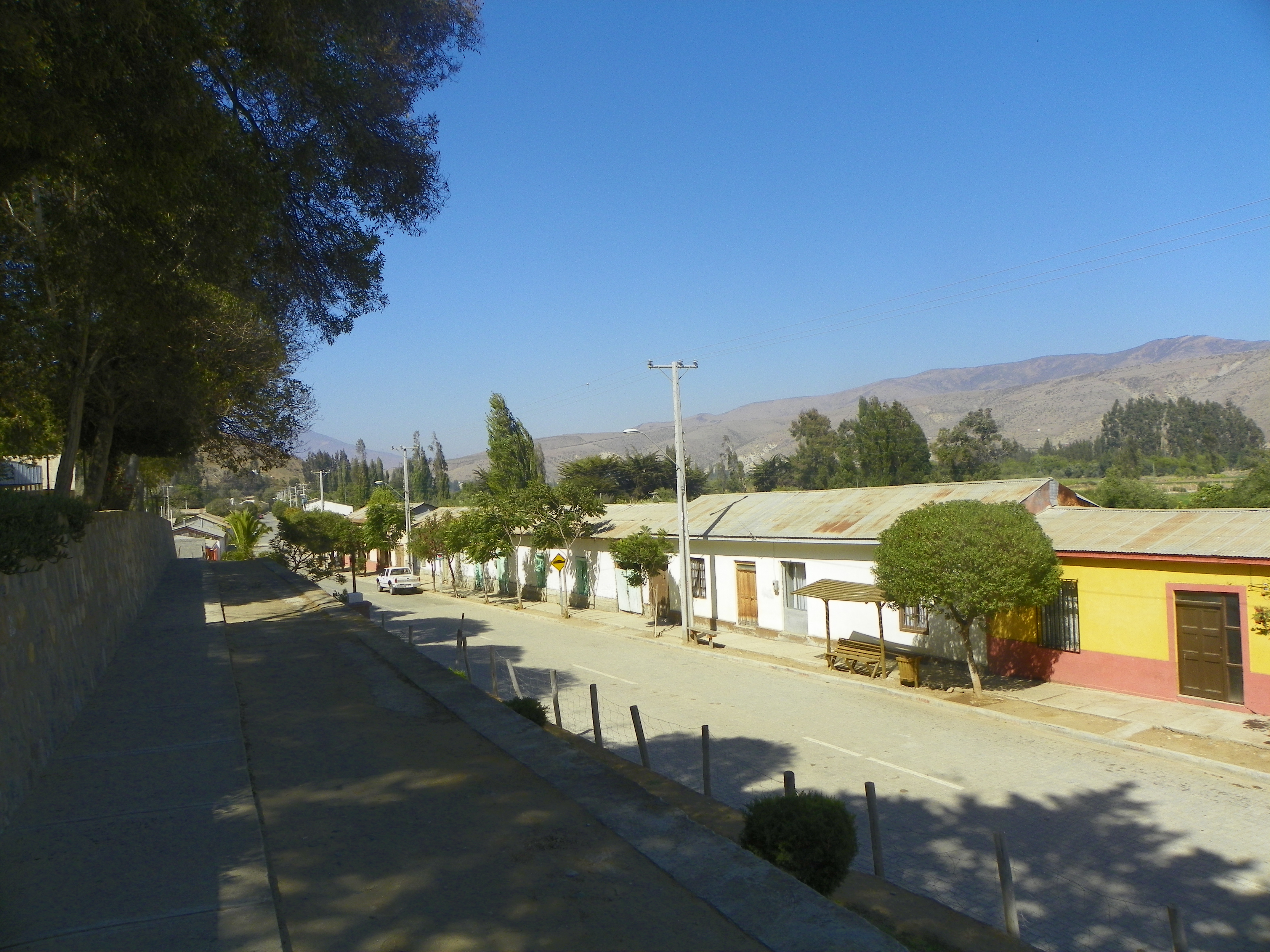 Mincha Norte, Chile